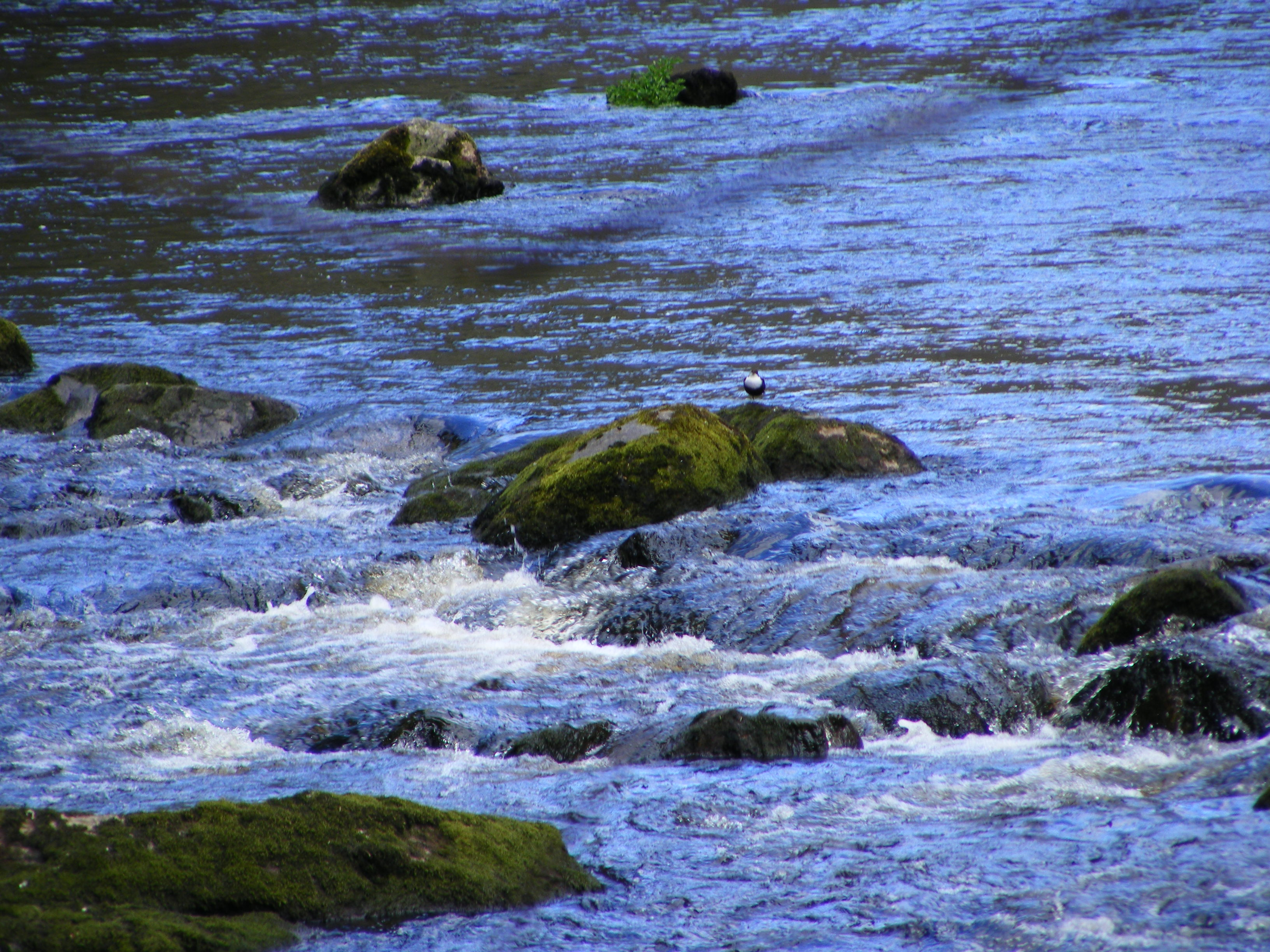 An Irish dipper (Cinclus cinclus hibernicus) in his typical habitat, Avonmore in Irland.